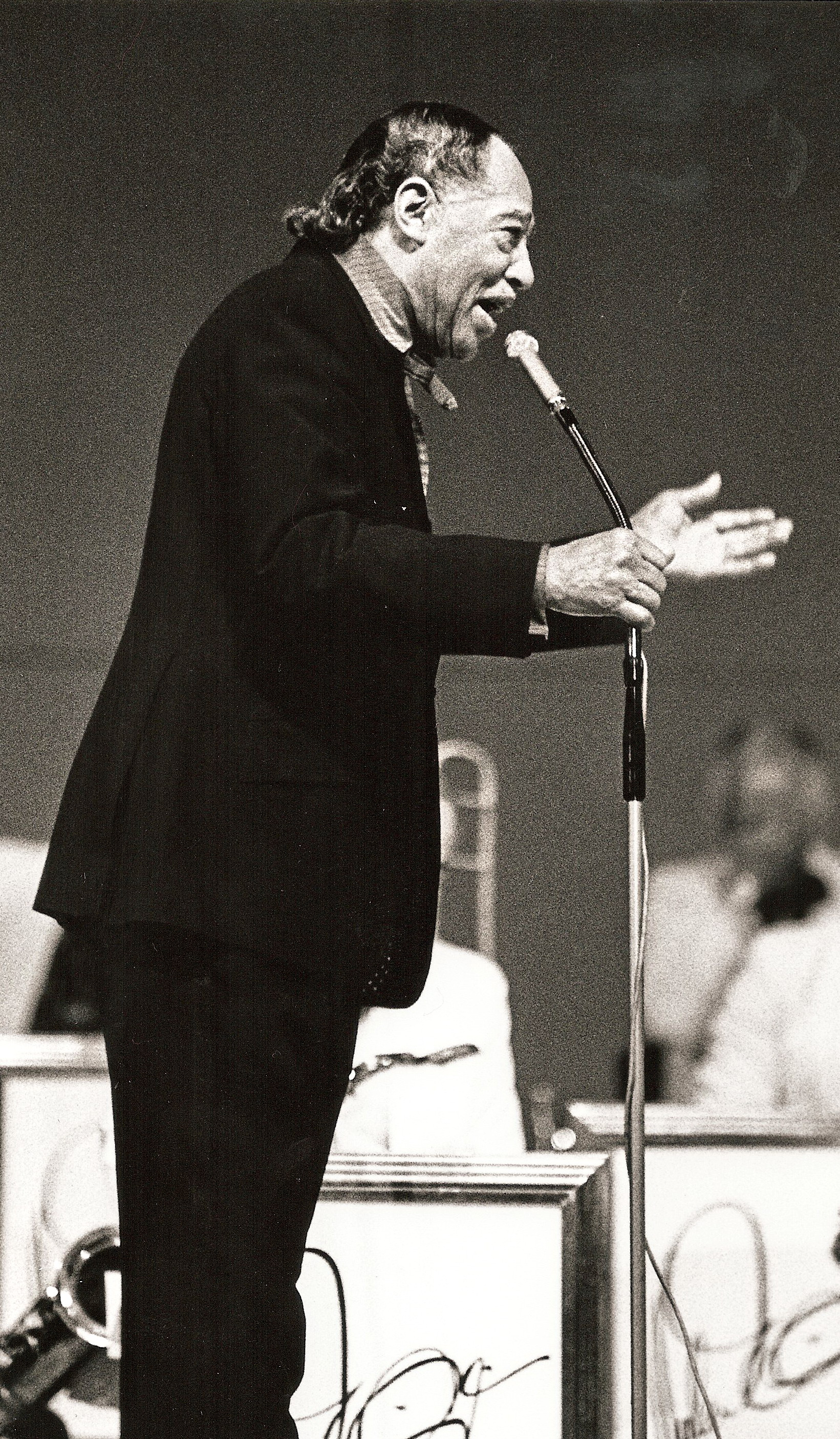 Duke Ellington in concert 1973 in Munich